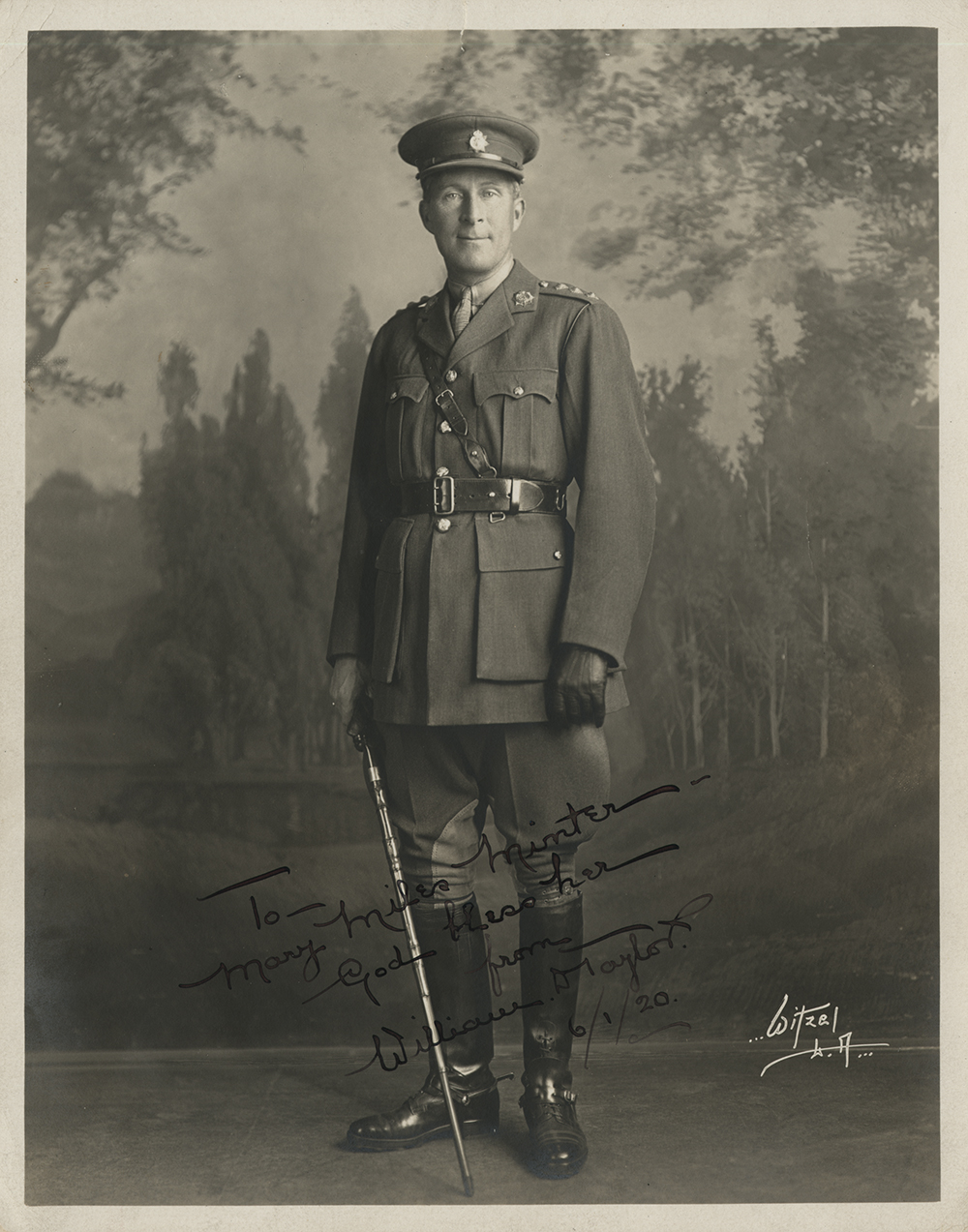 Portrait of Anglo-Irish director William Desmond Taylor (1872–1922) by American photographer Albert Witzel (1879–1929); autographed to American film actress Mary Miles Minter.